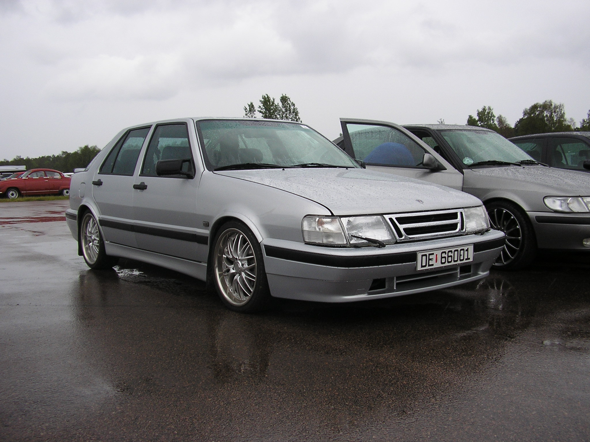 A SAAB 9000 from Norway at the International SAAB Club Meeting 2006.